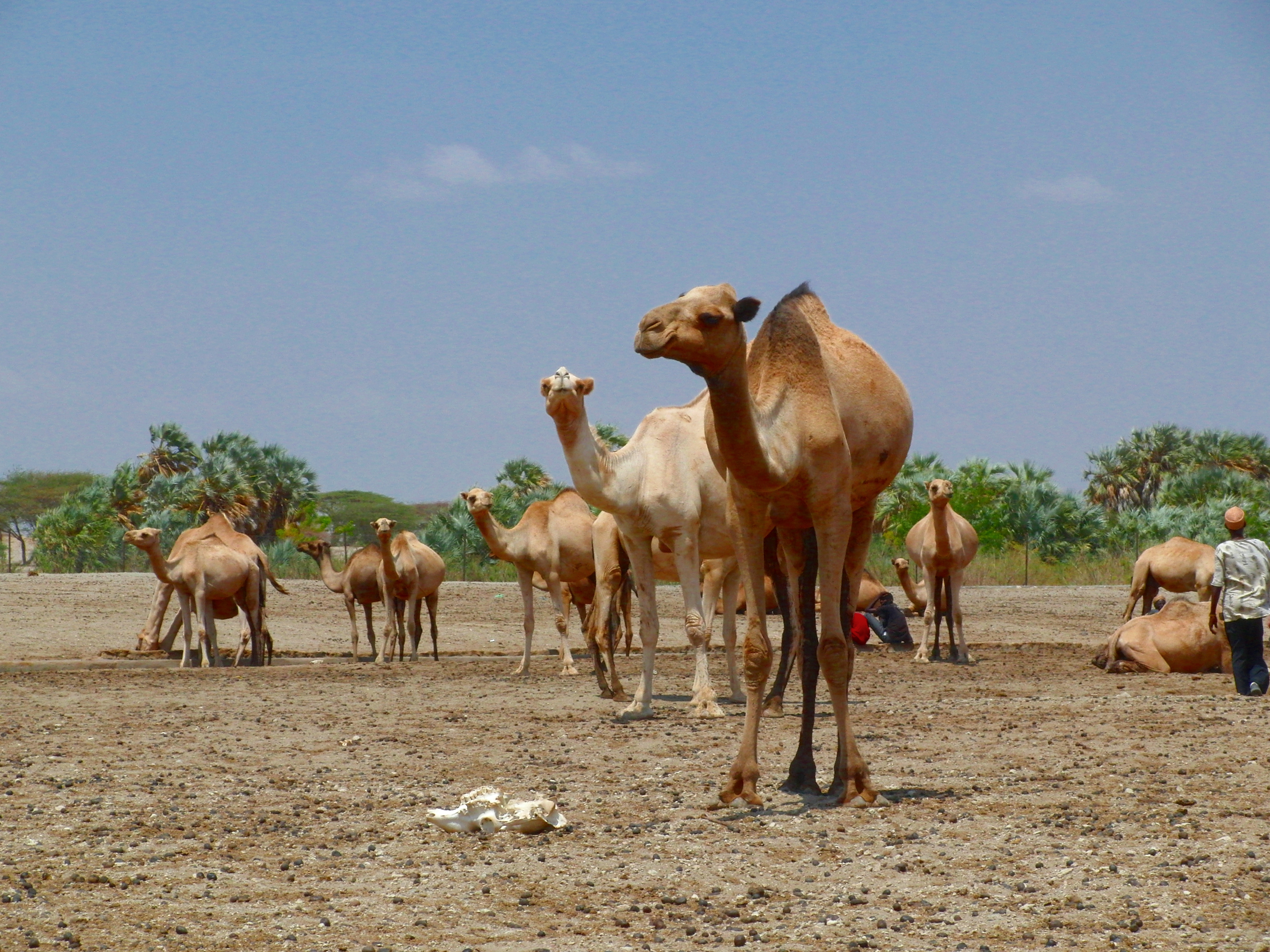 Camel herd at a watering place near North Horr, North Kenya.